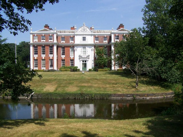 Hilton Hall. Home of the Vernon Family for over 400 years, the hall is now used as business premises by a number of companies. History